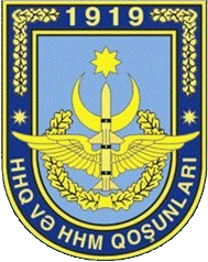 Military insignia of the Azerbaijani Land Forces